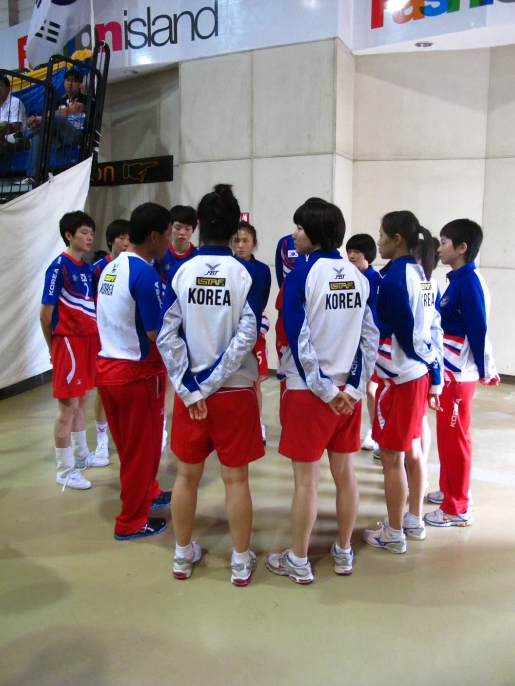 South Korea Team in King's Cup Sepak Takraw 5